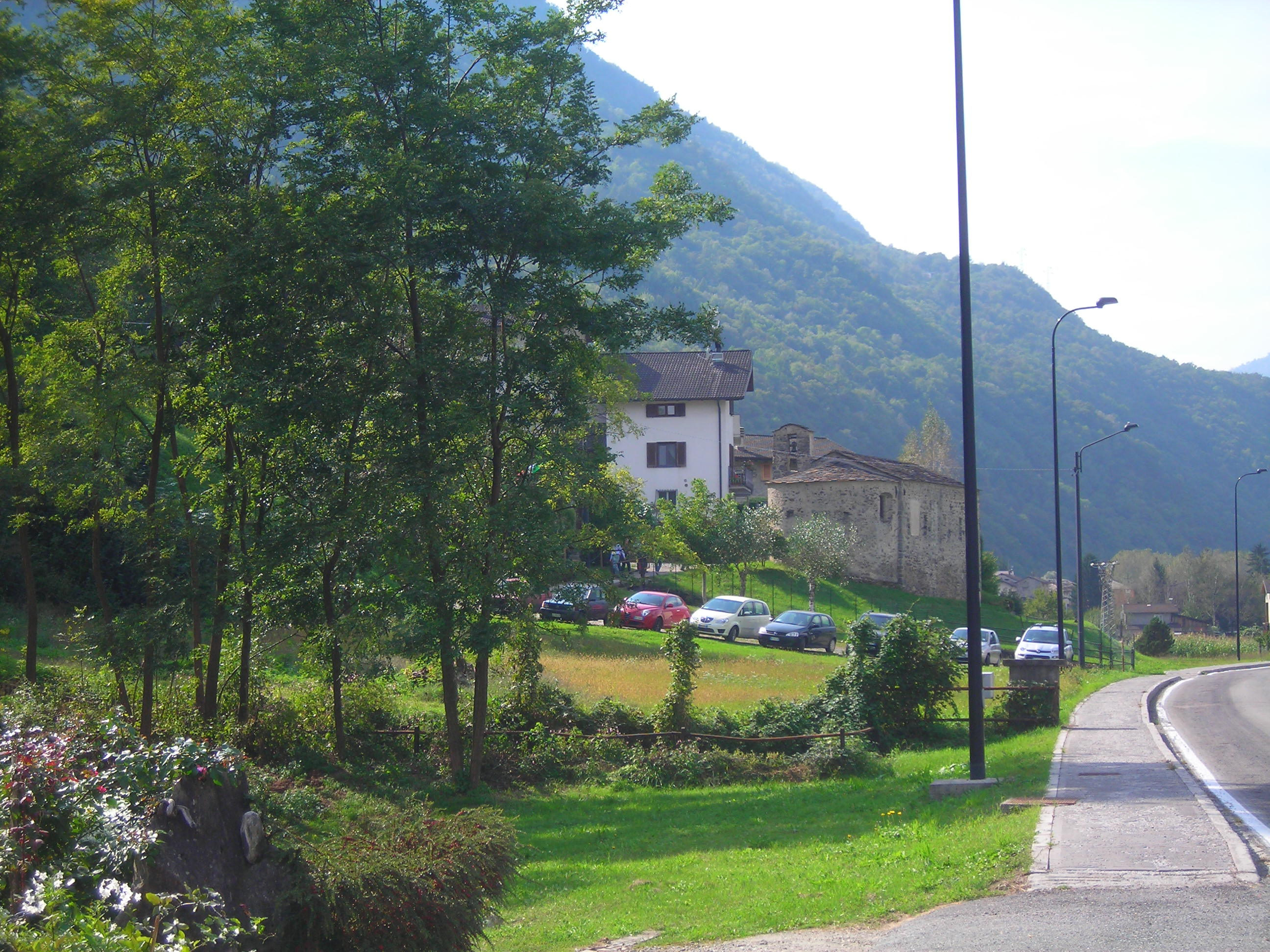 medievale